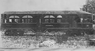 The "Kathryn" was built by the Tampa and Jacksonville to a design by J. A. Whiting sometime around 1916.